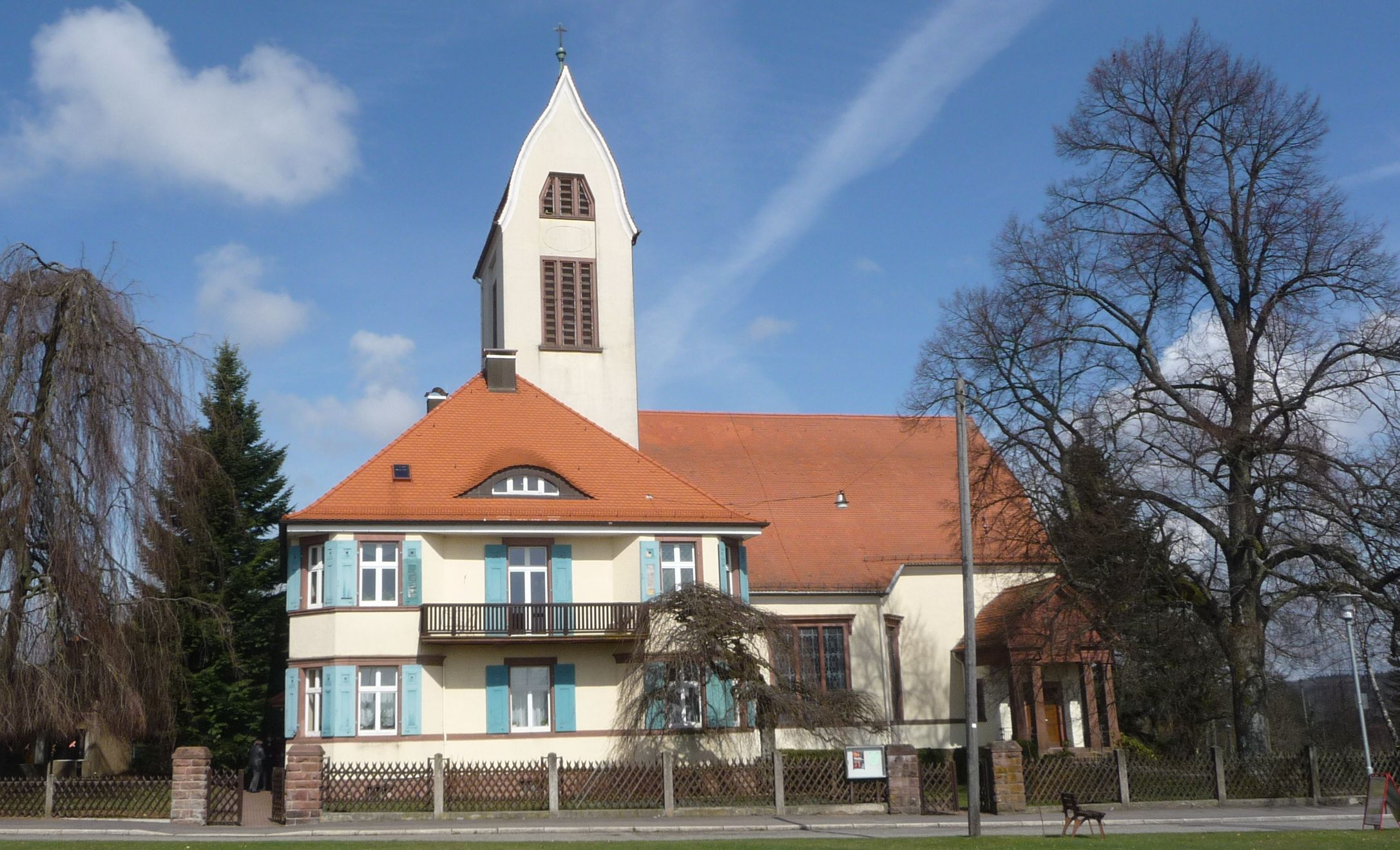 Strümpfelbrunn